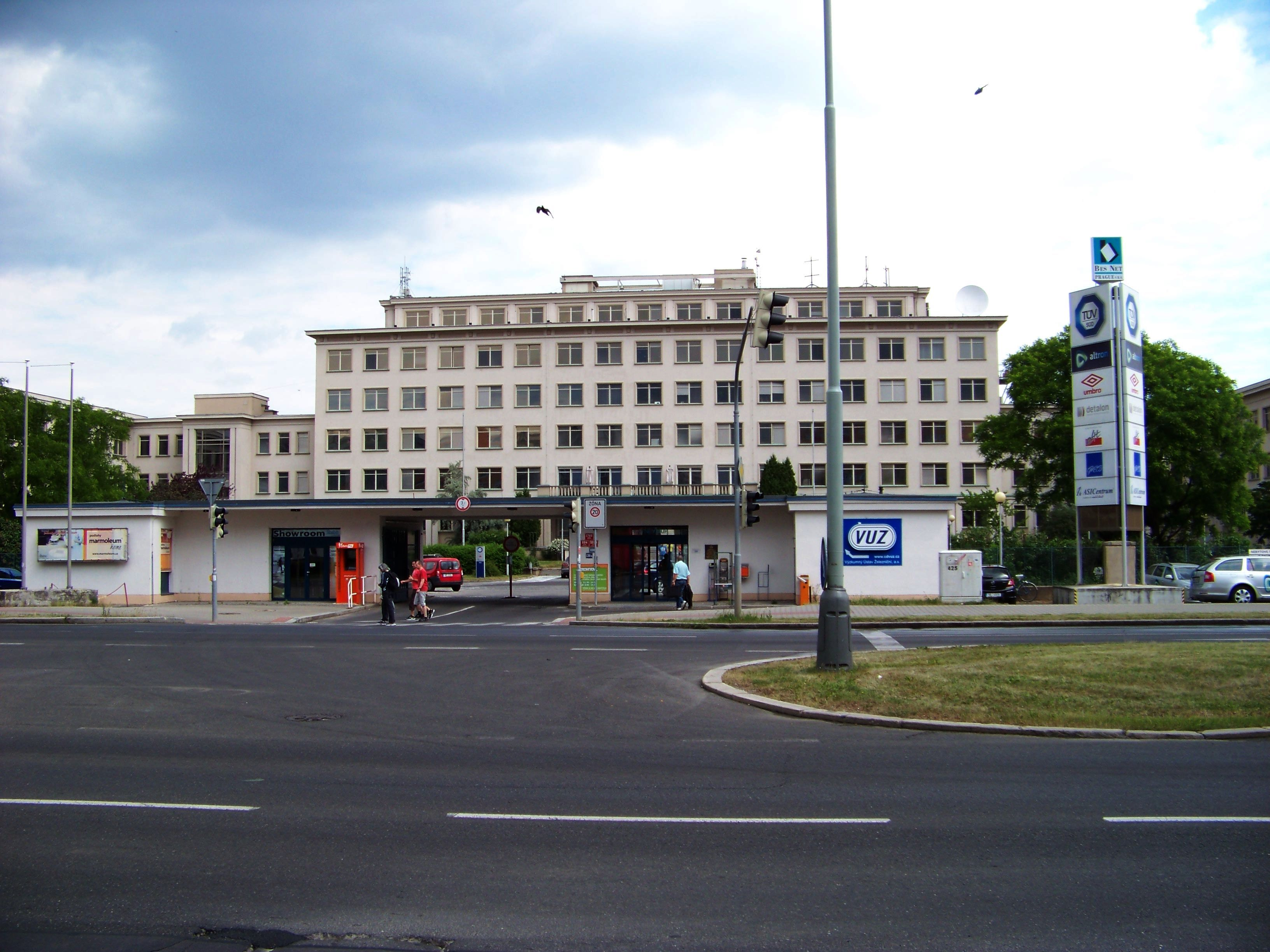 Prague-Braník, the Czech Republic. Novodvorská 994/138, Bes Net Centre. - OpenStreetMap(Info)